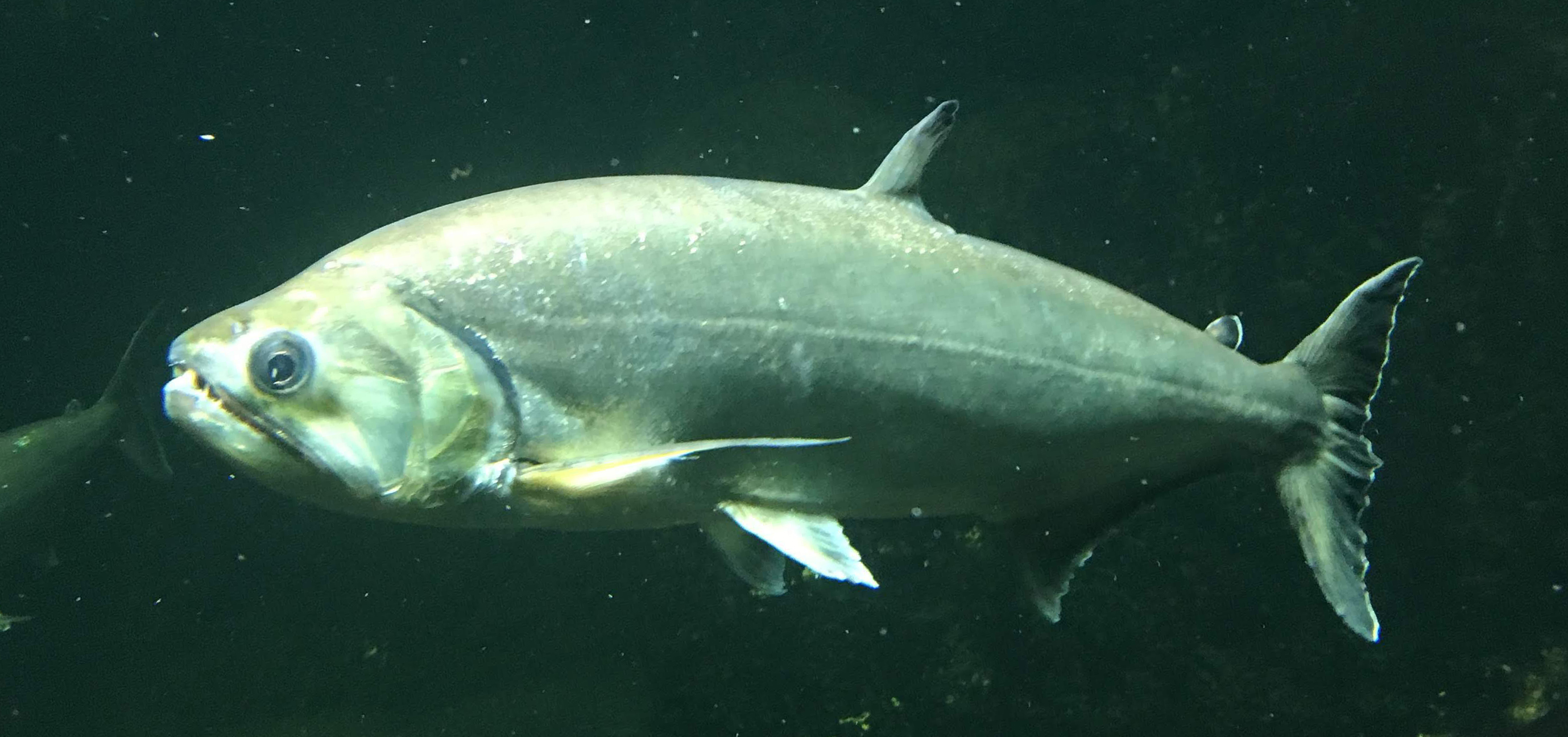 Hydrolycus armatus, photo taken at the Berlin Tiergarten (Aquarium Berlin). Cropped and flipped to meet the taxobox image guidelines of WikiProject Fishes